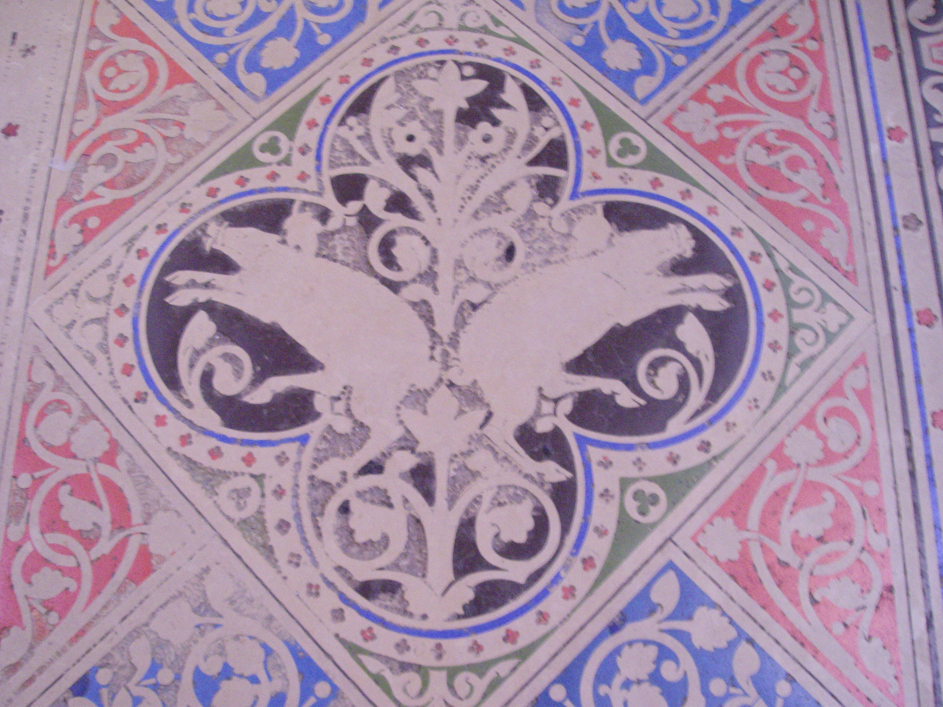 the upper Sainte-Chapelle